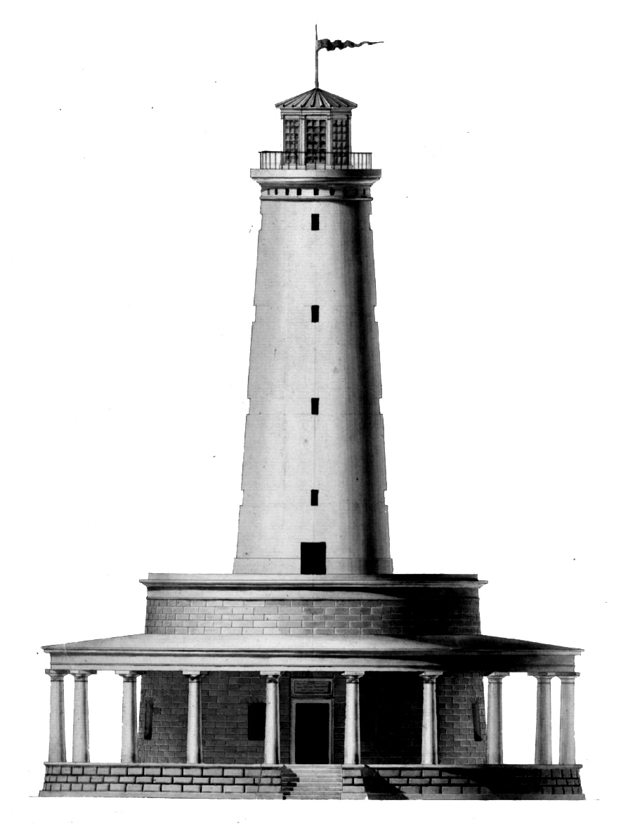 Frank's Island Lighthouse, design by Benjamin Henry Latrobe, 1816 This lighthouse was set at "Frank's Island" or "Frank Island", in Louisiana at the mouth of the Mississippi River. Built in 1818, it collapsed the following year due to problems with the muddy foundation, and was replaced by a lighthouse of different design.